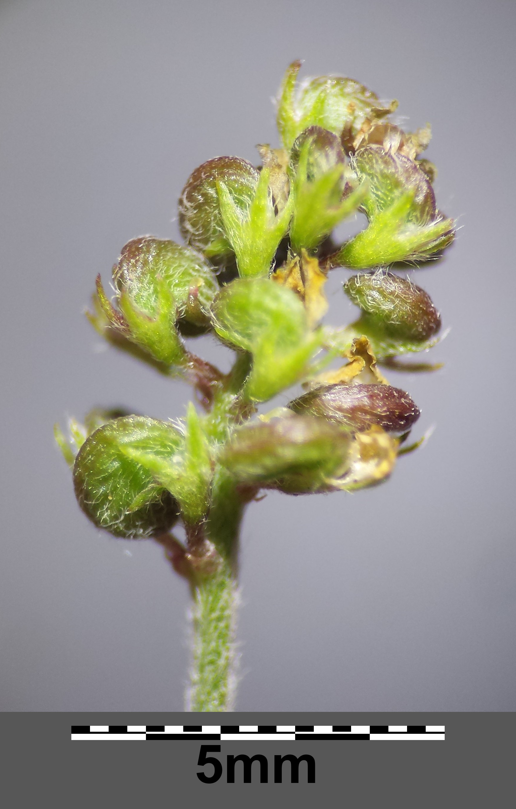 Infructescence Taxonym: Medicago lupulina ss Fischer et al. EfÖLS 2008 ISBN 978-3-85474-187-9 Location: Neue Donau, Vienna-Floridsdorf - ca. 160 m a.s.l. Habitat: dry meadows